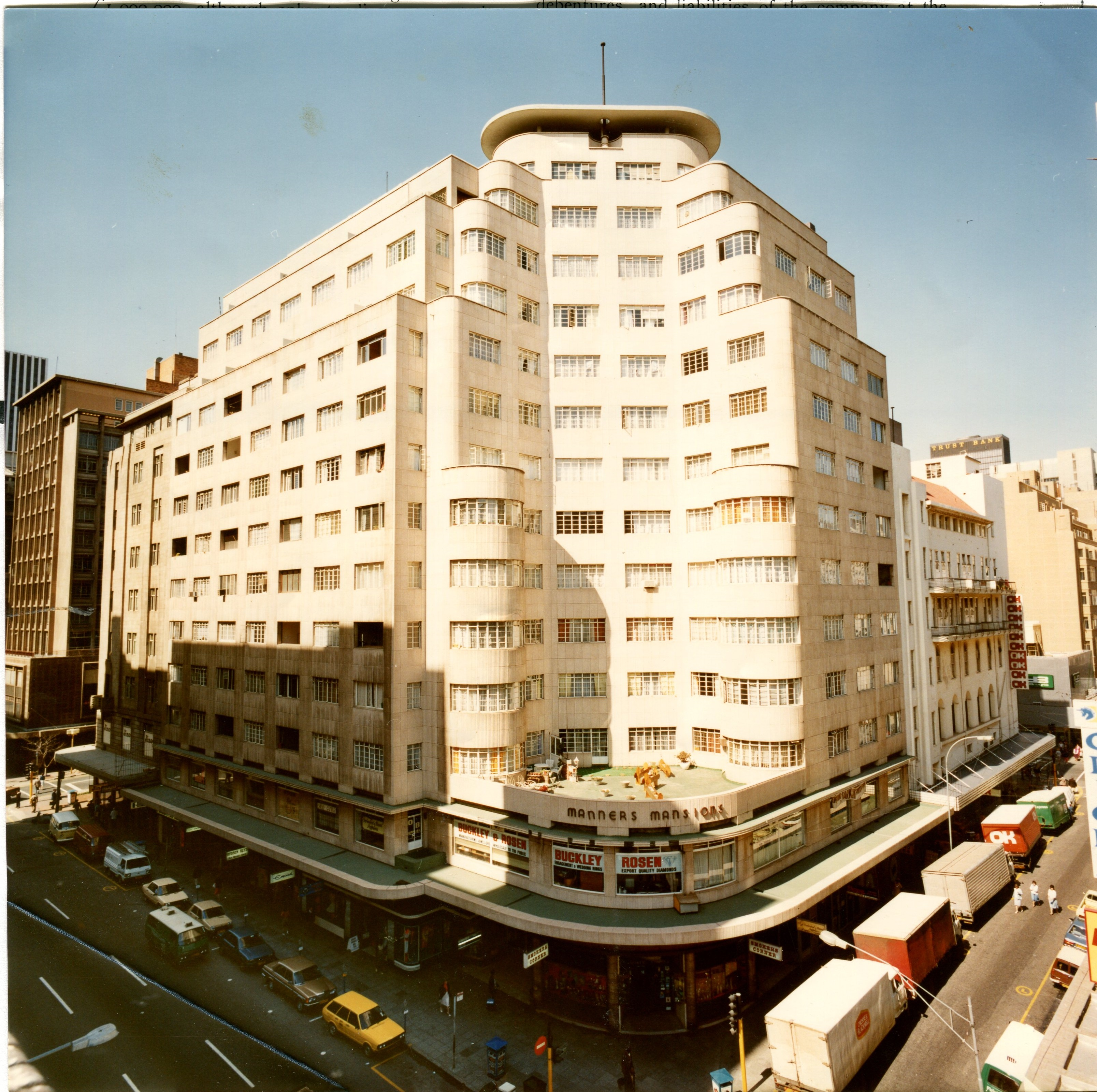 Manners Mansions cnr Jeppe and Joubert is a building found in the city of Johannesburg. It was built in 1937. It is part of the Joburgpedia and JHF project.